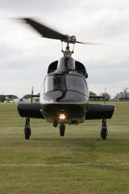 Bell 222 Lifting off on another rotation.